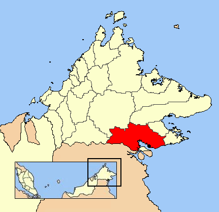 Location map of Tawau. Created with aquarius OMC and MS Paint.